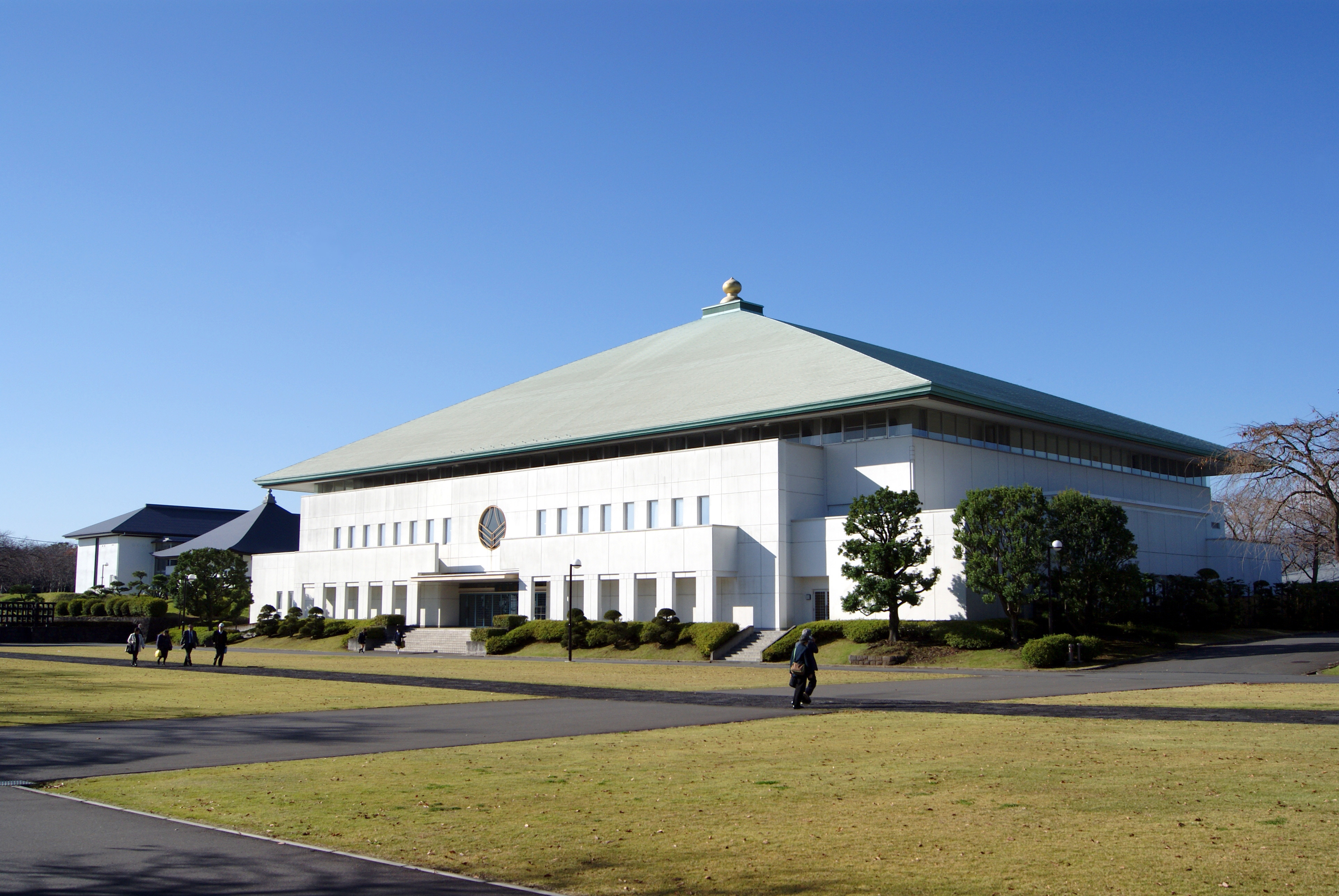 Kōfu-bō of Taiseki-ji.